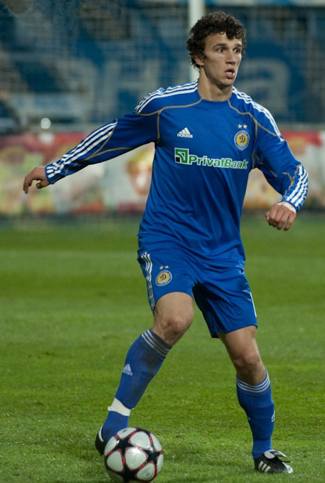 Roman Eremenko, Finnish footballer, during the game for Dynamo Kyiv